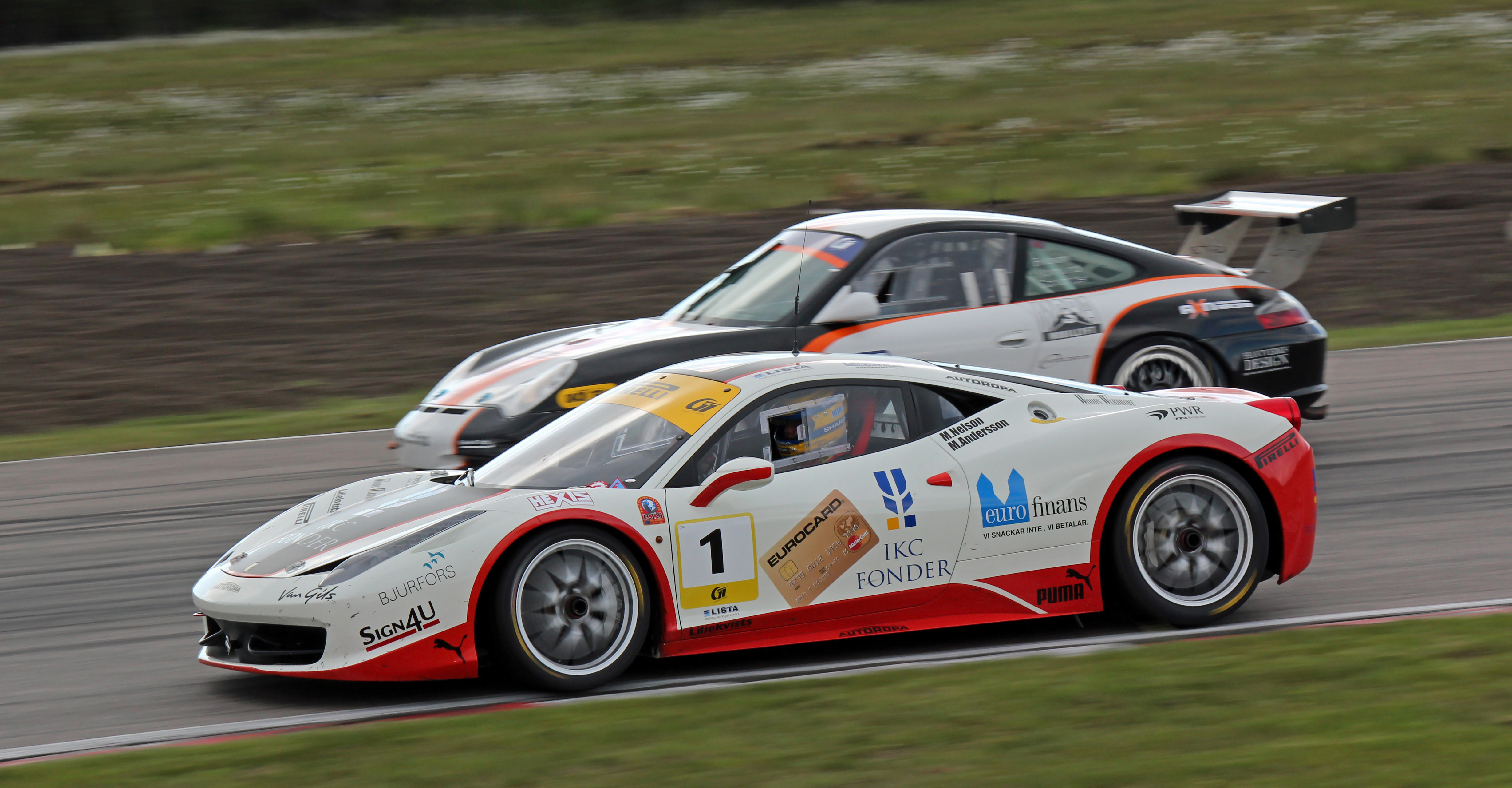 Mattias Andersson in a Ferrari 458 Challenge for IKC Scuderia Autoropa in Swedish GT Series at Anderstorp Raceway in 2012. His team mate was Martin Nelson.